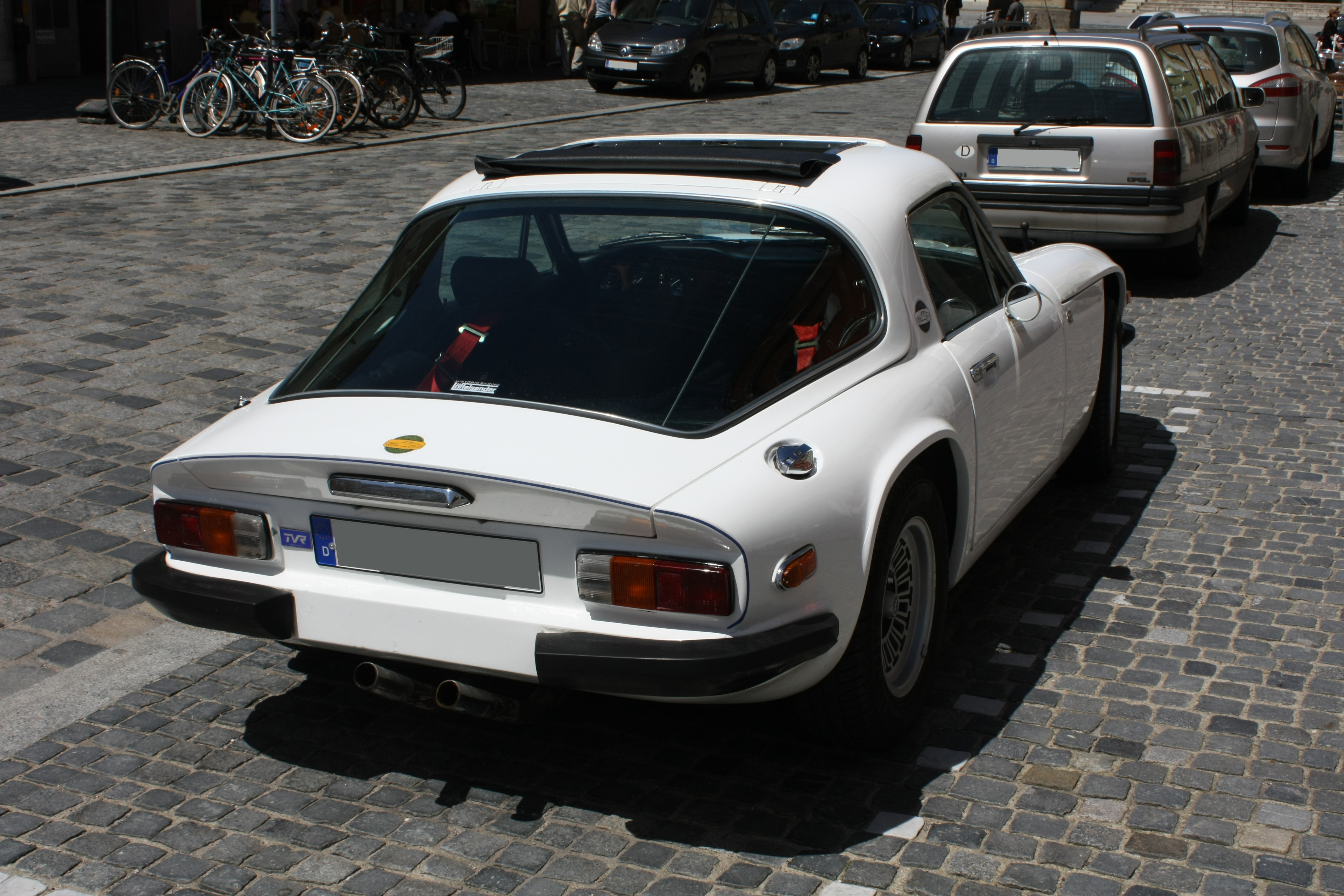 TVR Taimar